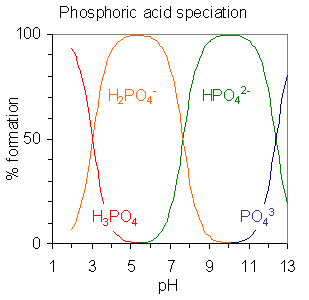 phosphoric acid speciation